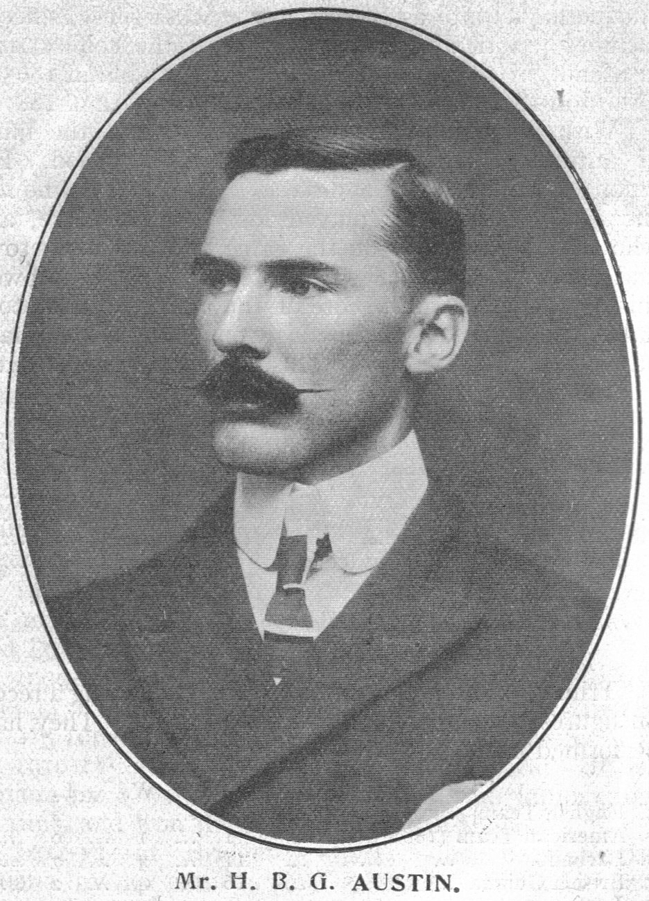 Mr. H.B.G. Austin from Cricket: A Weekly Record of the Game, 1913 page 25